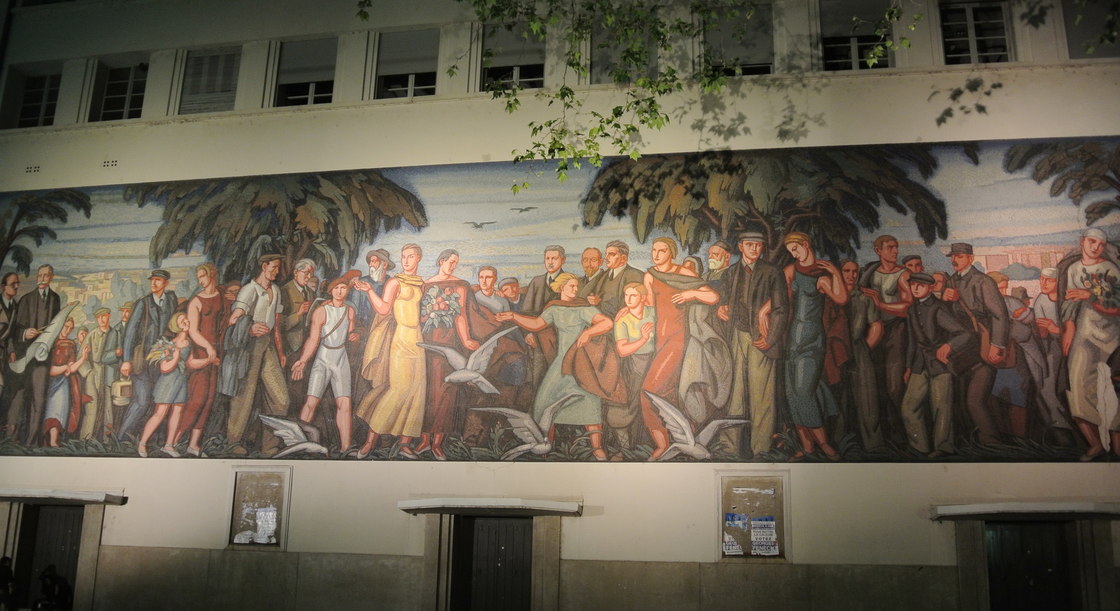 Fresco on the western side of the Bourse du travail in Lyon, seen from the place Guichard.